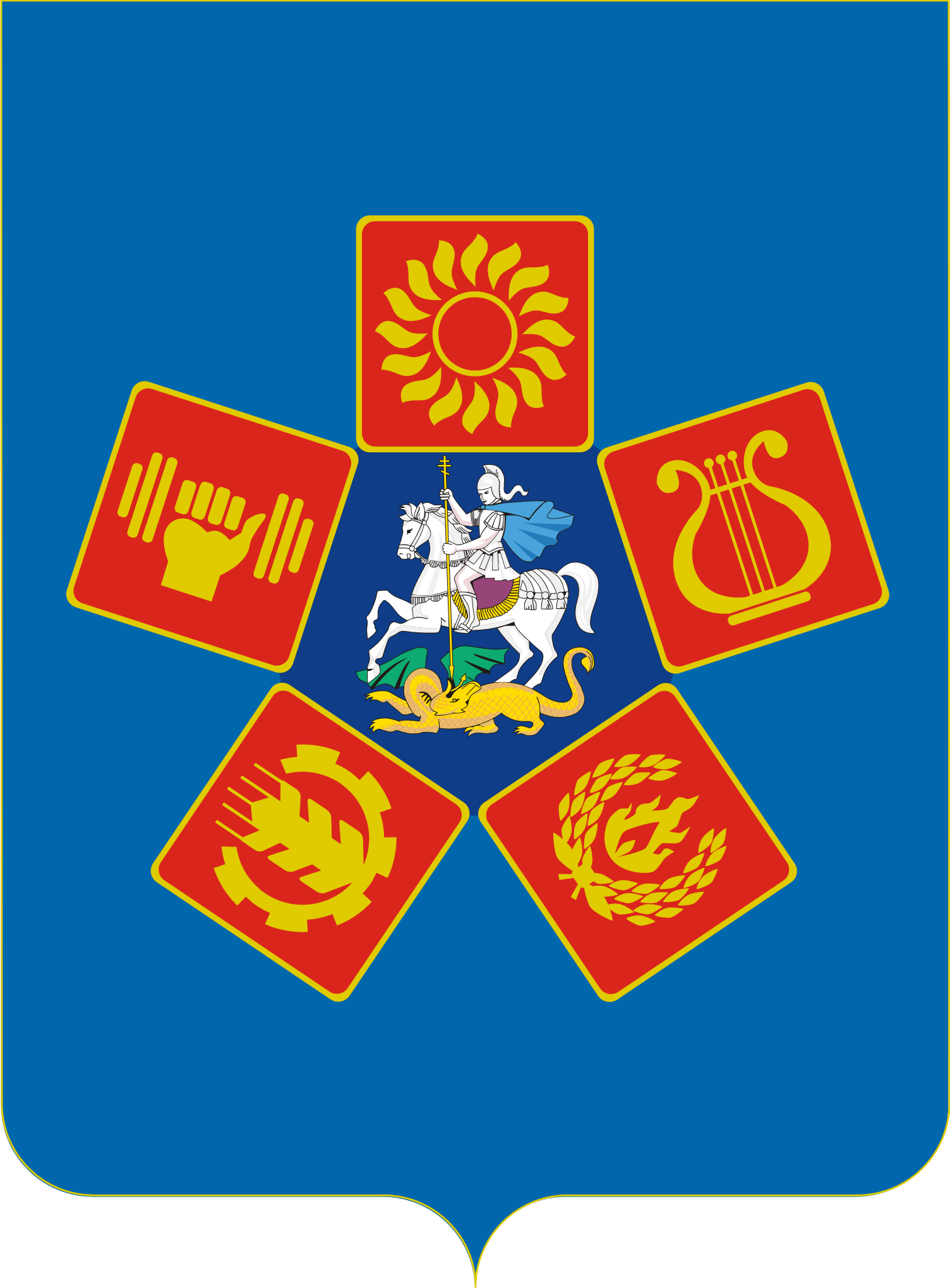 Lyubertsy (Moscow oblast), coat of arms